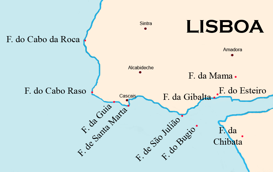 Map with Lisbon lighthouses locations